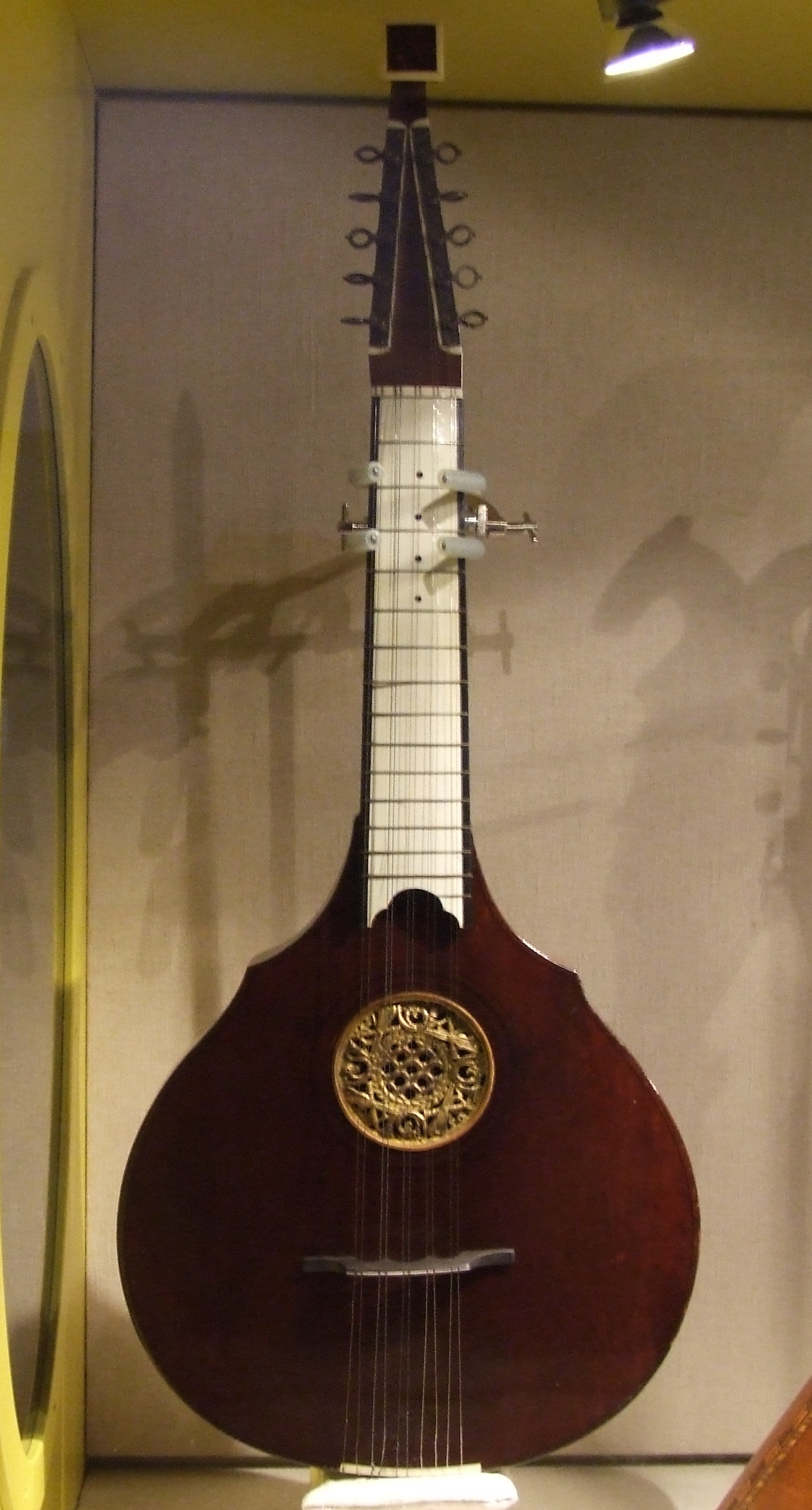 English guitar made by William Gibson in Dublin in 1772. Photo taken in the Powerhouse Museum, Sydney.